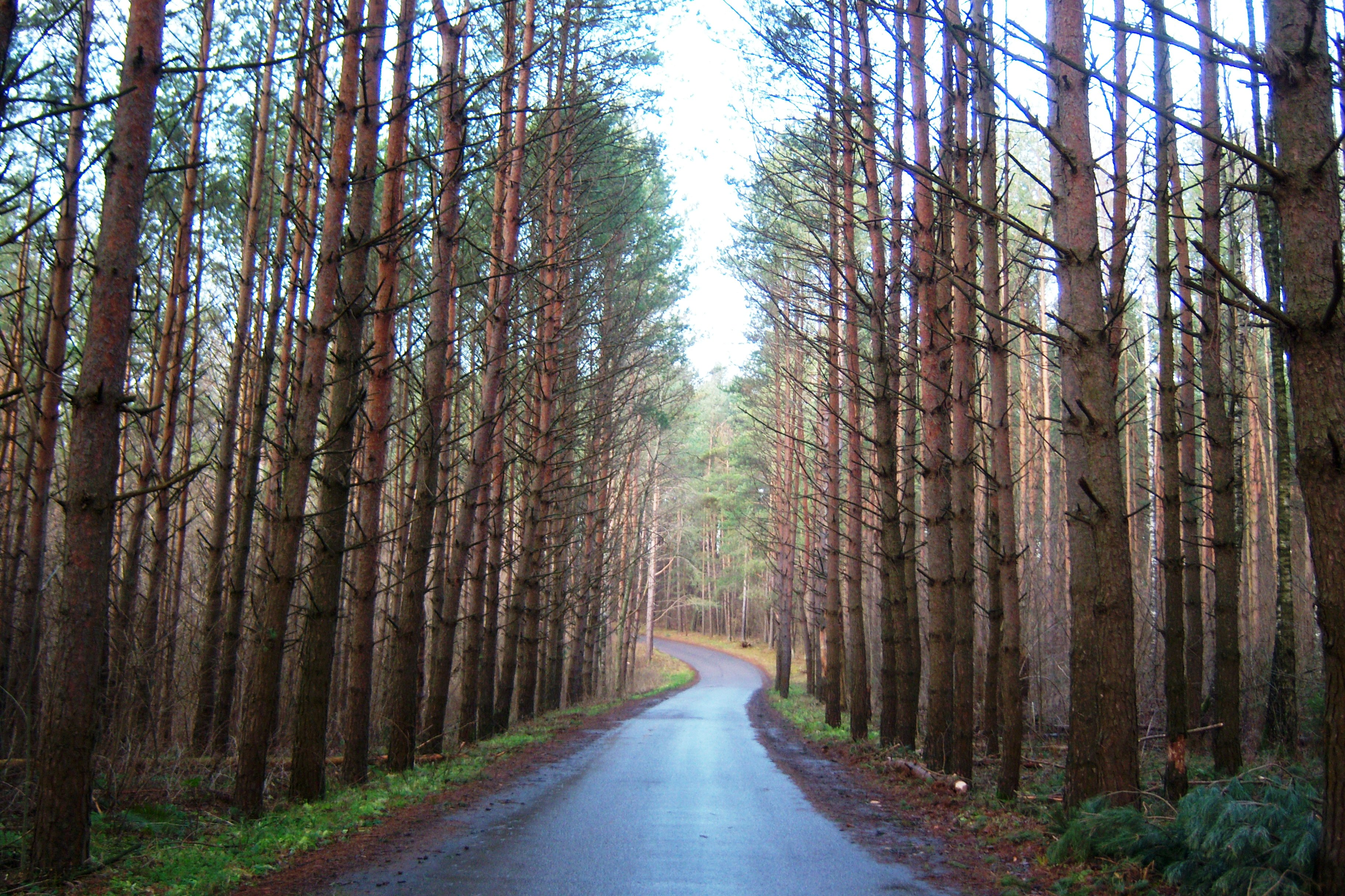 Lapių geomorphologic reserve, forest road in Lepšiškiai, Kaunas district, Lithuania